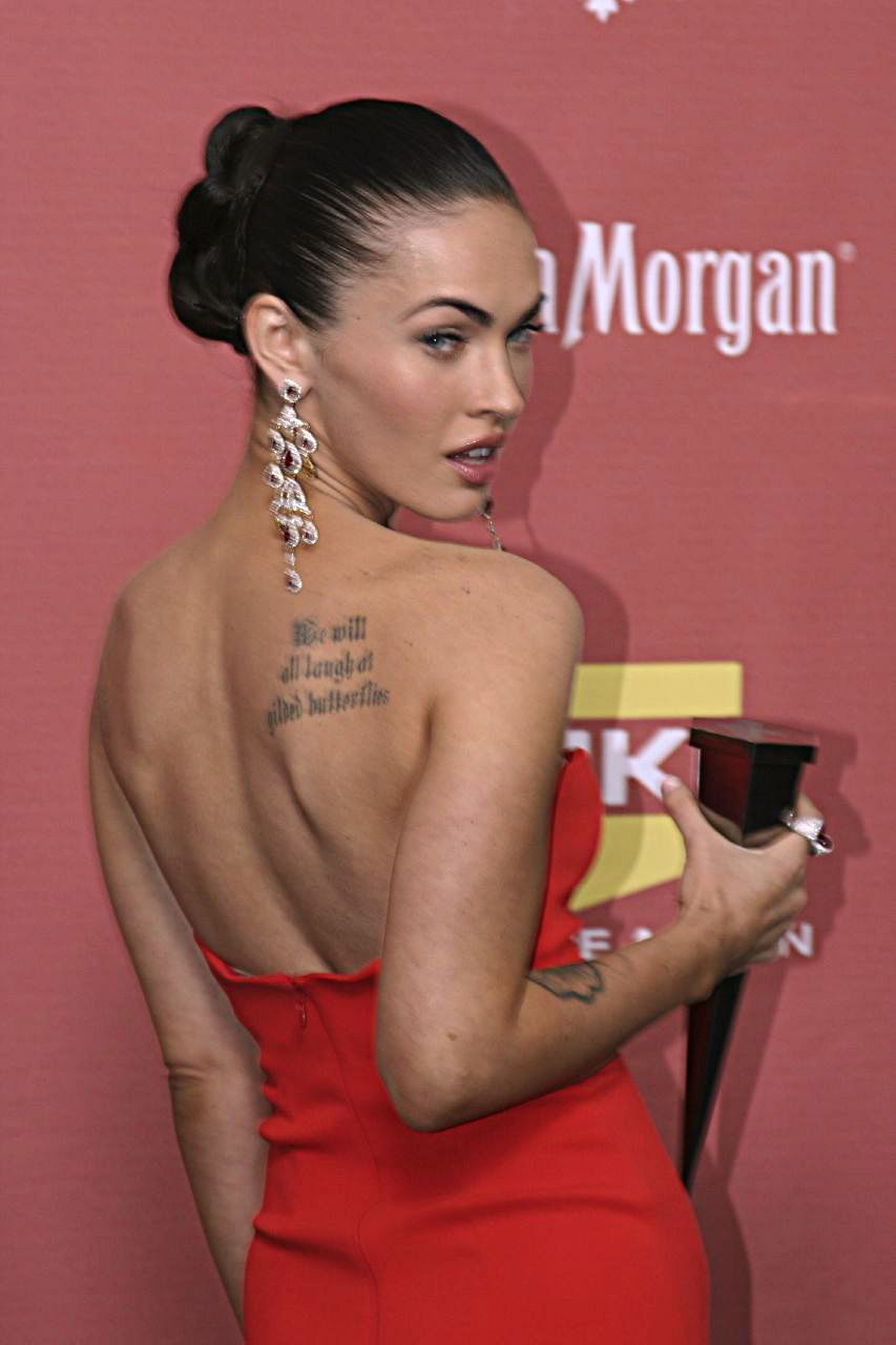 A Tattoo on Megan Fox's back.